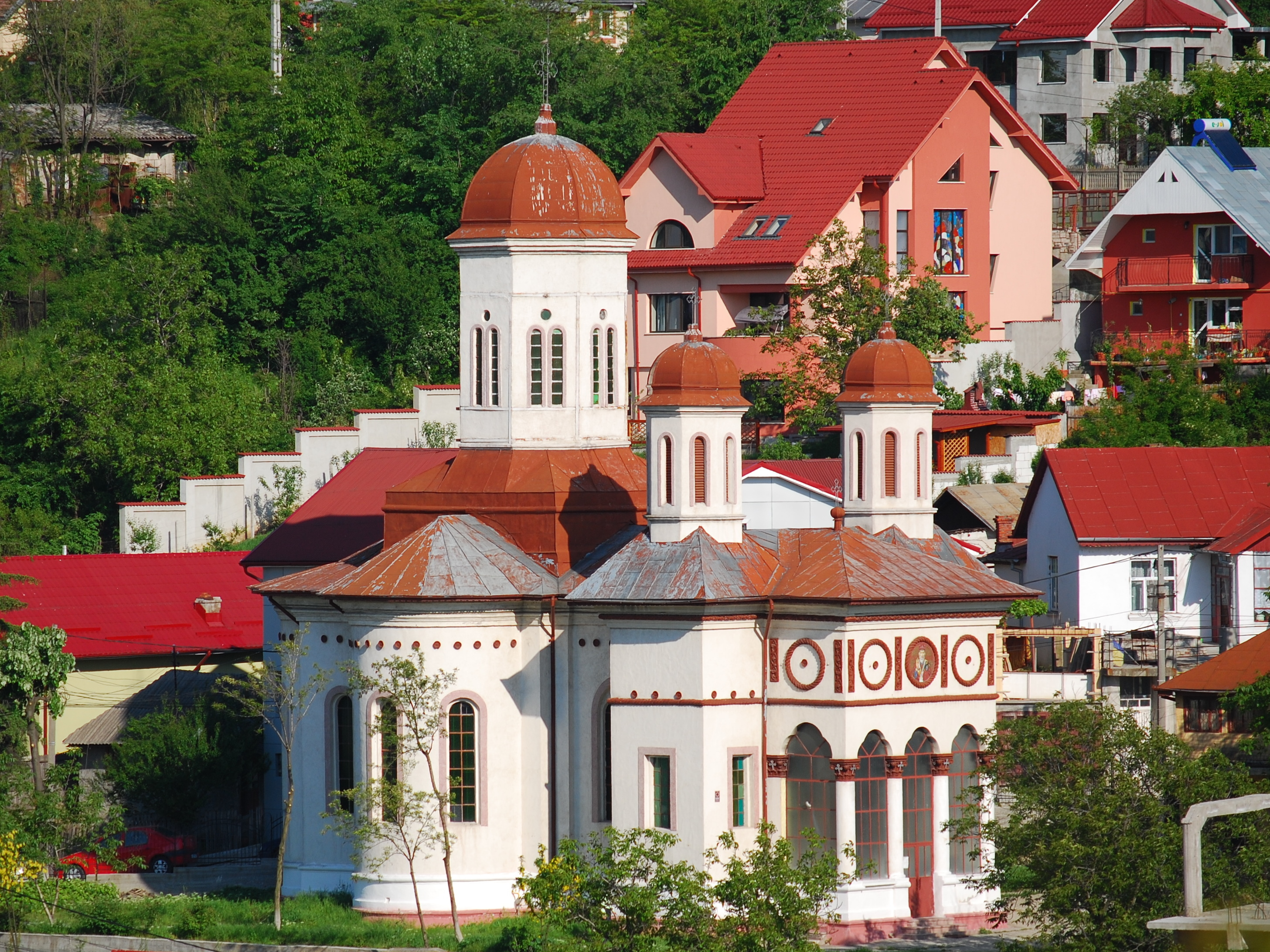 St. Nicholas church in Slatina, Romania. Built circa 1700, monument ID OT-II-m-B-08636Română: Biserica Sf. Nicolae din Coastă, Slatina, România. Construită la 1700, ID monument istoric OT-II-m-B-08636